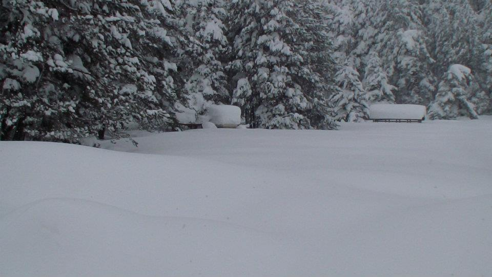 karadere ormanlari